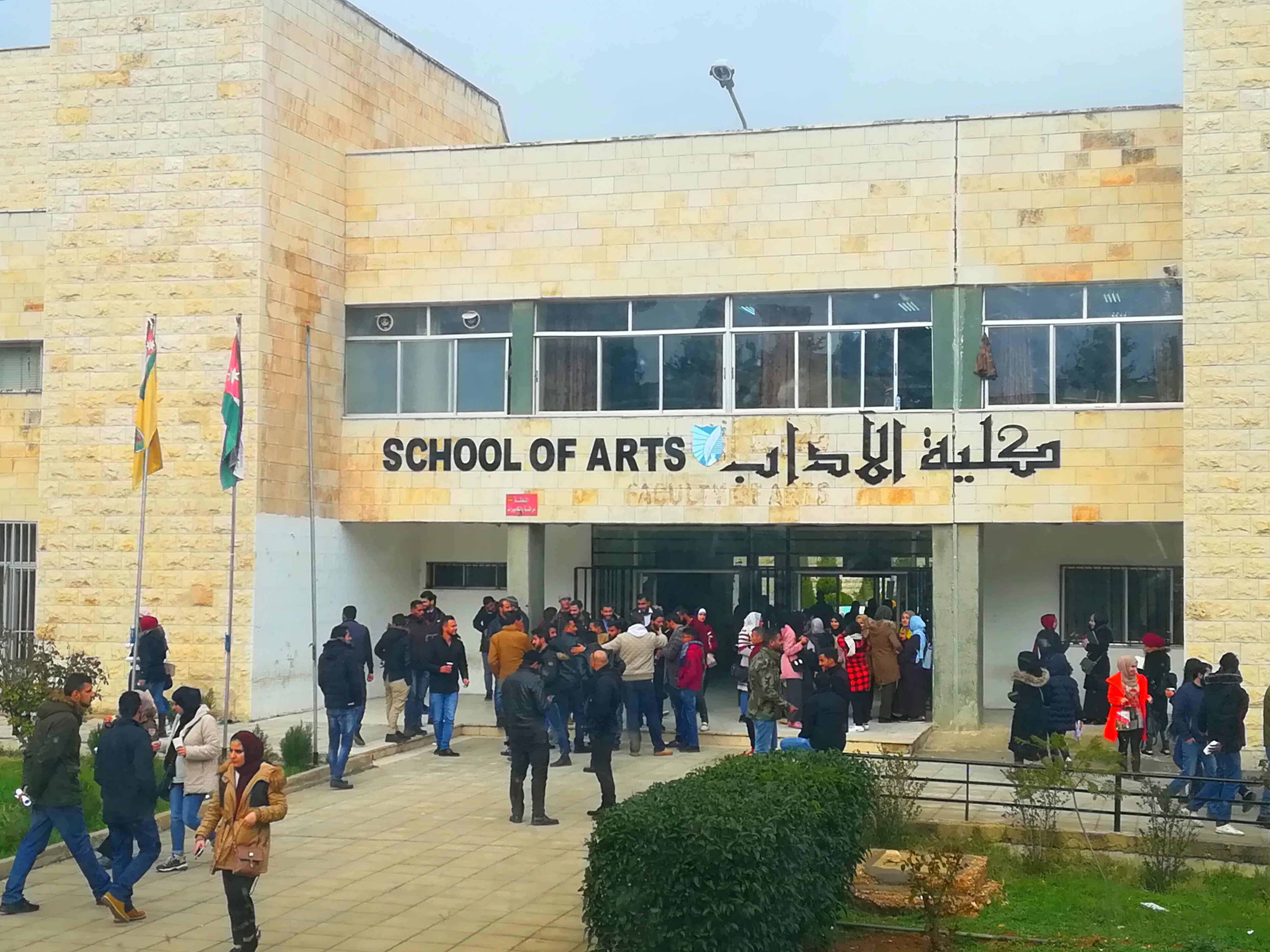 Faculty of Arts in University of Jordan